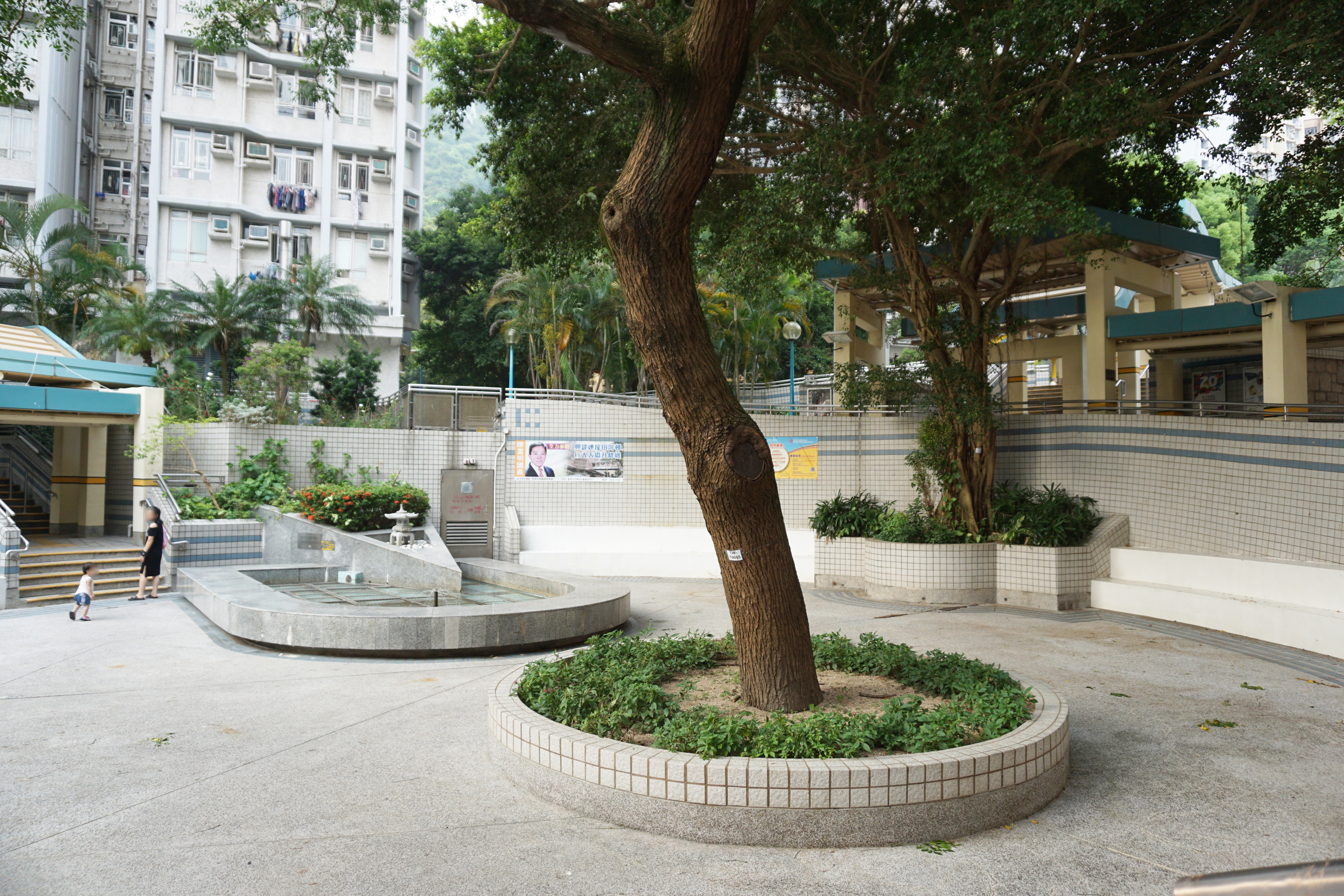 Tin Wan Estate in Tin Wan, Hong Kong.